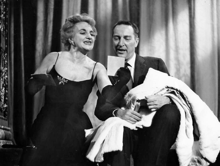 Publicity photo of actress Hermione Gingold and host Garry Moore from the television game show I've Got a Secret.